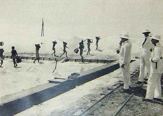 Photo showing French Minister of Colonies Paul Reynaud visiting the Djibouti saltworks, then the chief employer of the colony along with the harbour. The native saltwork workers worked barefoot in the salt in extreme heat. The legend of the photo published in the French magazine L'Illustration is titled Contraste noir sur blanc (Black on White Contrast).